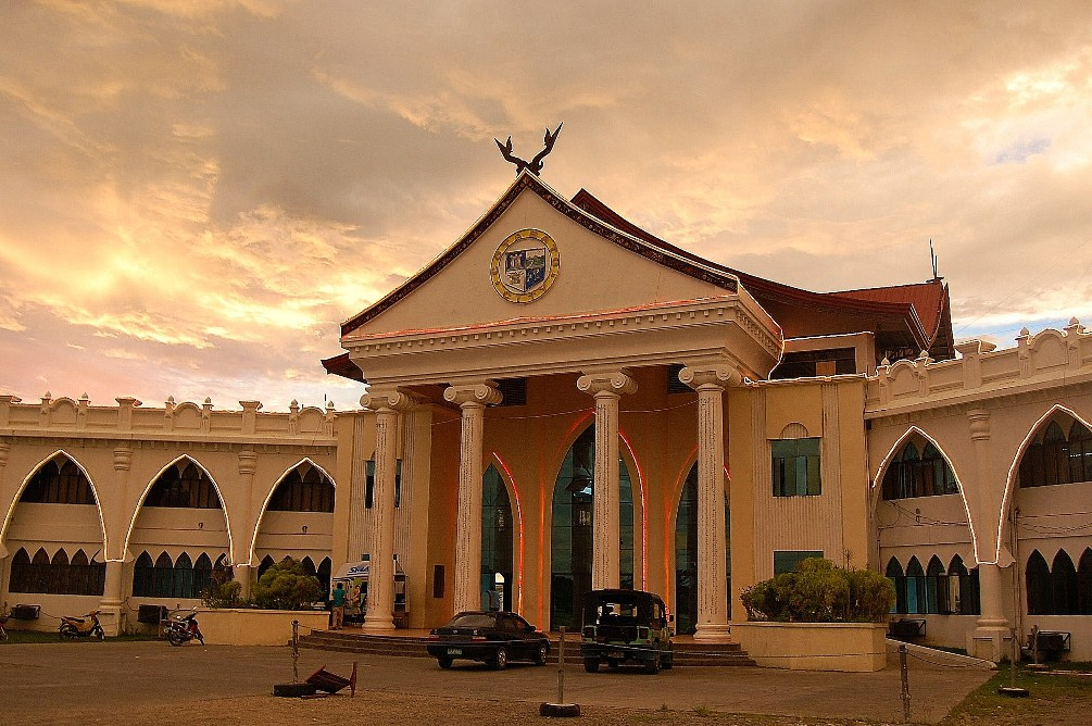 New Cotabato City Hall, also called the People's Palace.